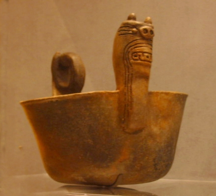 Underwater Panther-Great Serpent bowl, Late Mississippian, AD 1300-1500, from Rhodes Place, Crittenden County, Arkansas, USA. Photo taken at National Museum of the American Indian, New York.